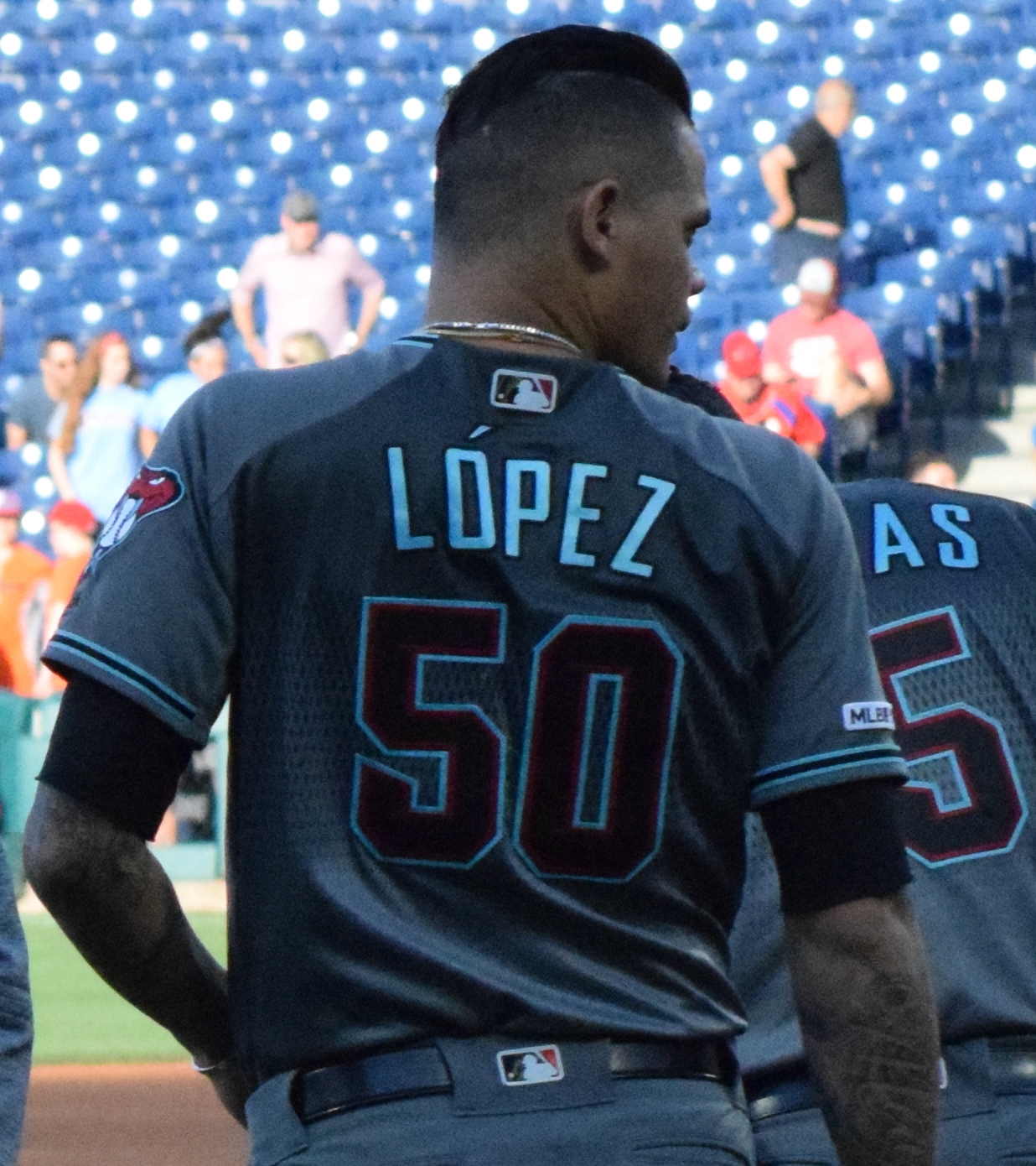 Members of the Arizona Diamondbacks before a game at Citizens Bank Park in Philadelphia in 2019